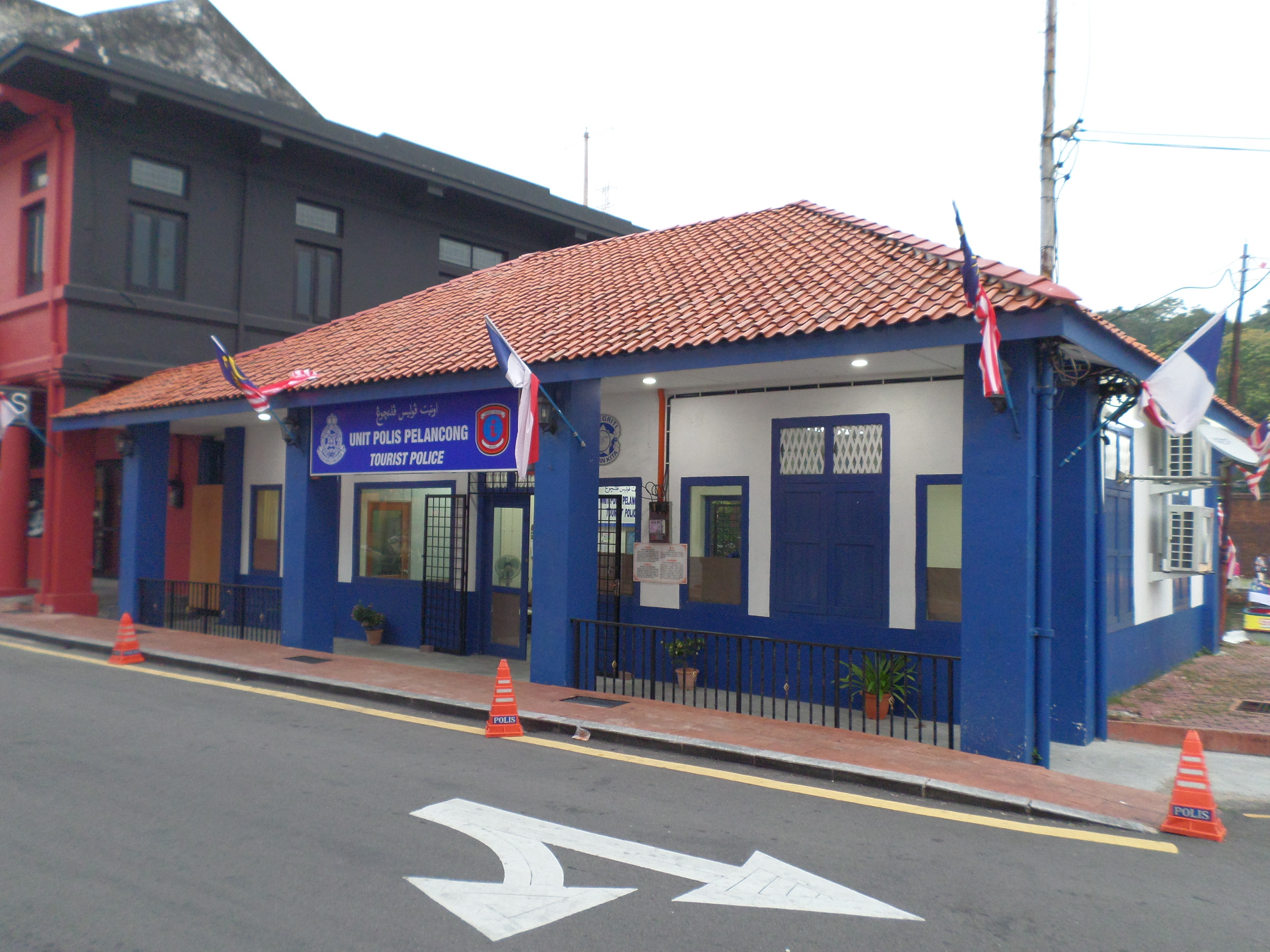 Tourist Police, Chinatown, Malacca City, Malacca, MalaysiaBahasa Melayu: Unit Police Pelancong, Pekan Cina, Bandaraya Melaka, Melaka, Malaysia